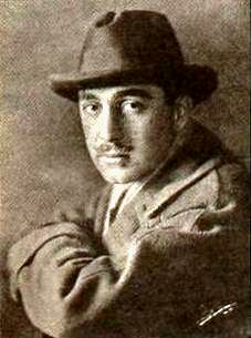 American director Sidney Franklin on page 4797 of the June 12, 1920 Motion Picture News.